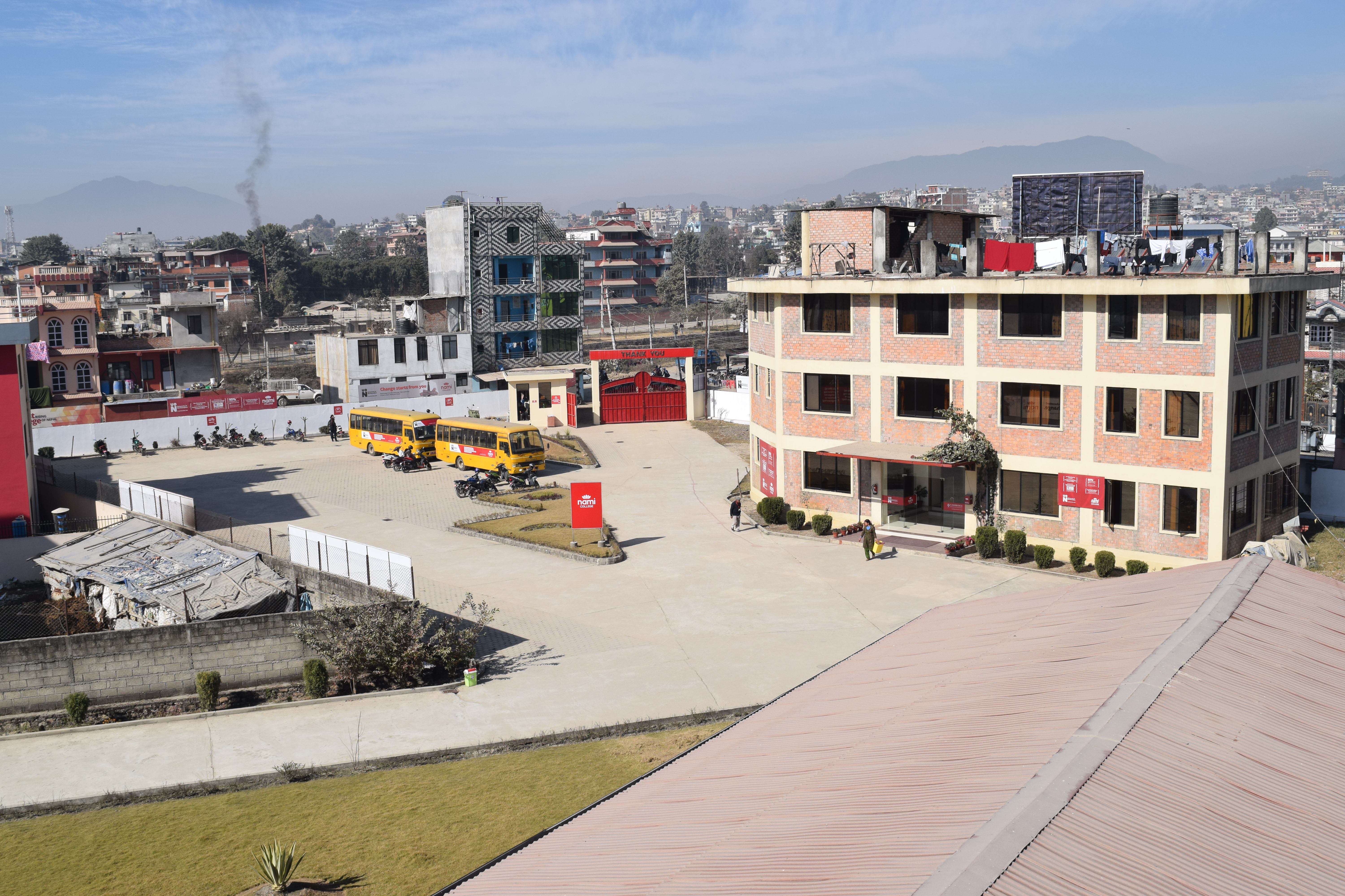 NAMI COLLEGE Administration Block